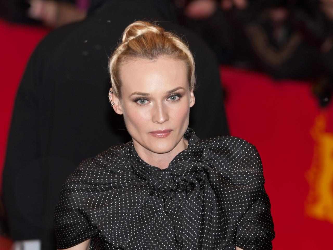 German actress Diane Kruger, cast of the film "Les adieux à la reine", Opening of the 62nd Berlin International Film Festival